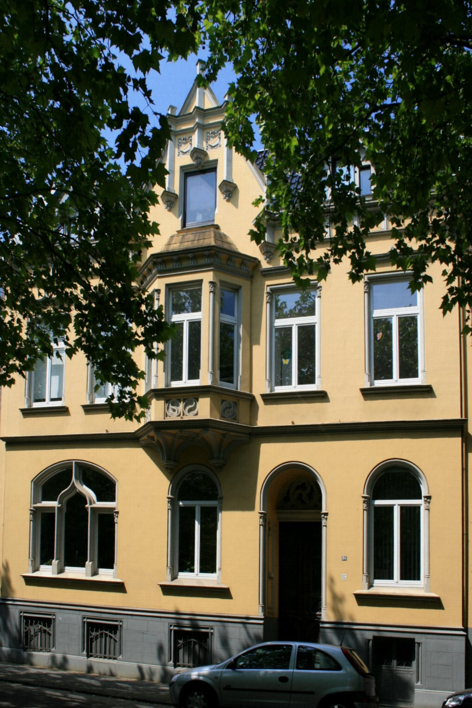 Cultural heritage monument No. R 041 in Mönchengladbach